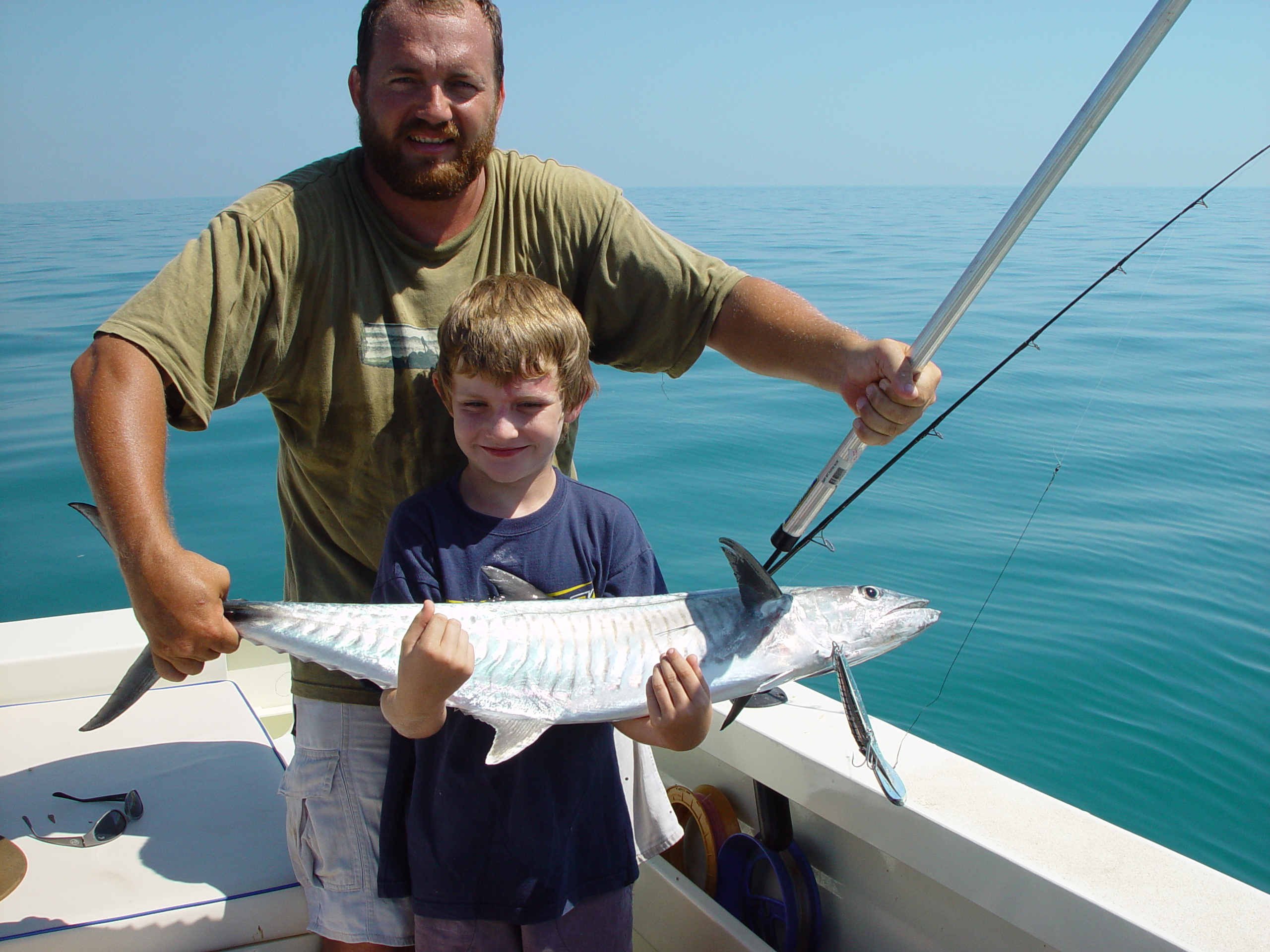 A Narrow-barred Spanish Mackerel Scomberomorus commerson caught off Darwin, Northern Territory.